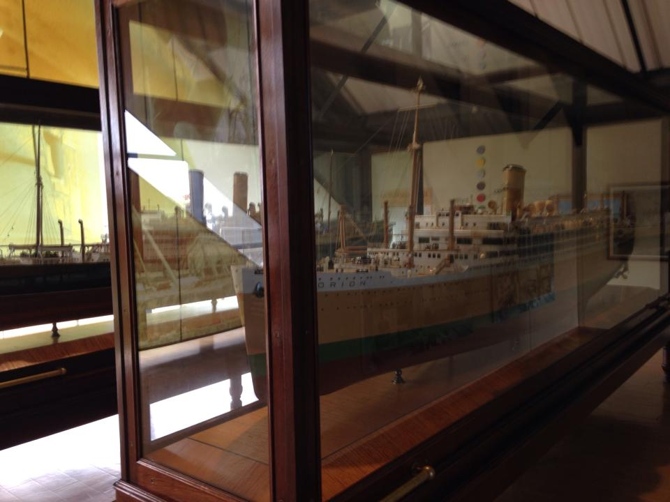 Shipbuilders models of ocean liners displayed in the Dock Museum, Barrow-in-Furness, Cumbria, England.